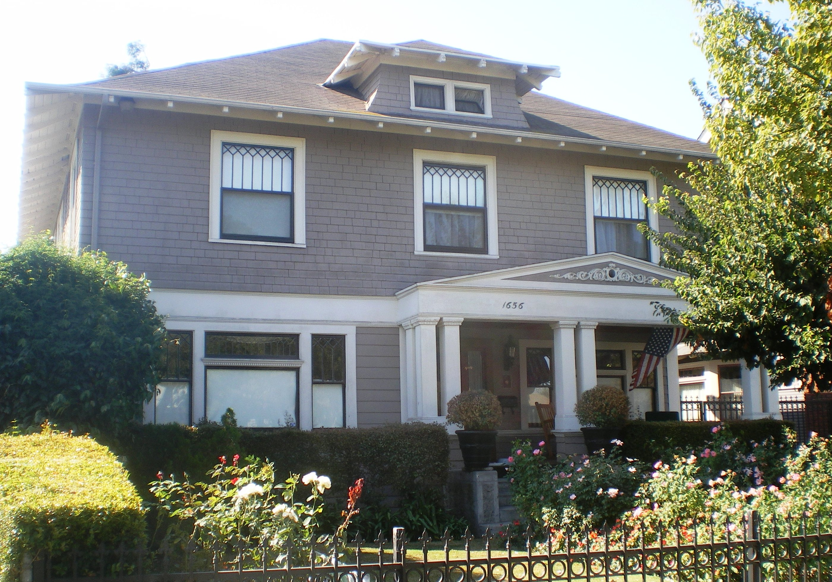 Bernays House, 1656 W. 25th St., West Adams, Los Angeles, California (HCM #780)